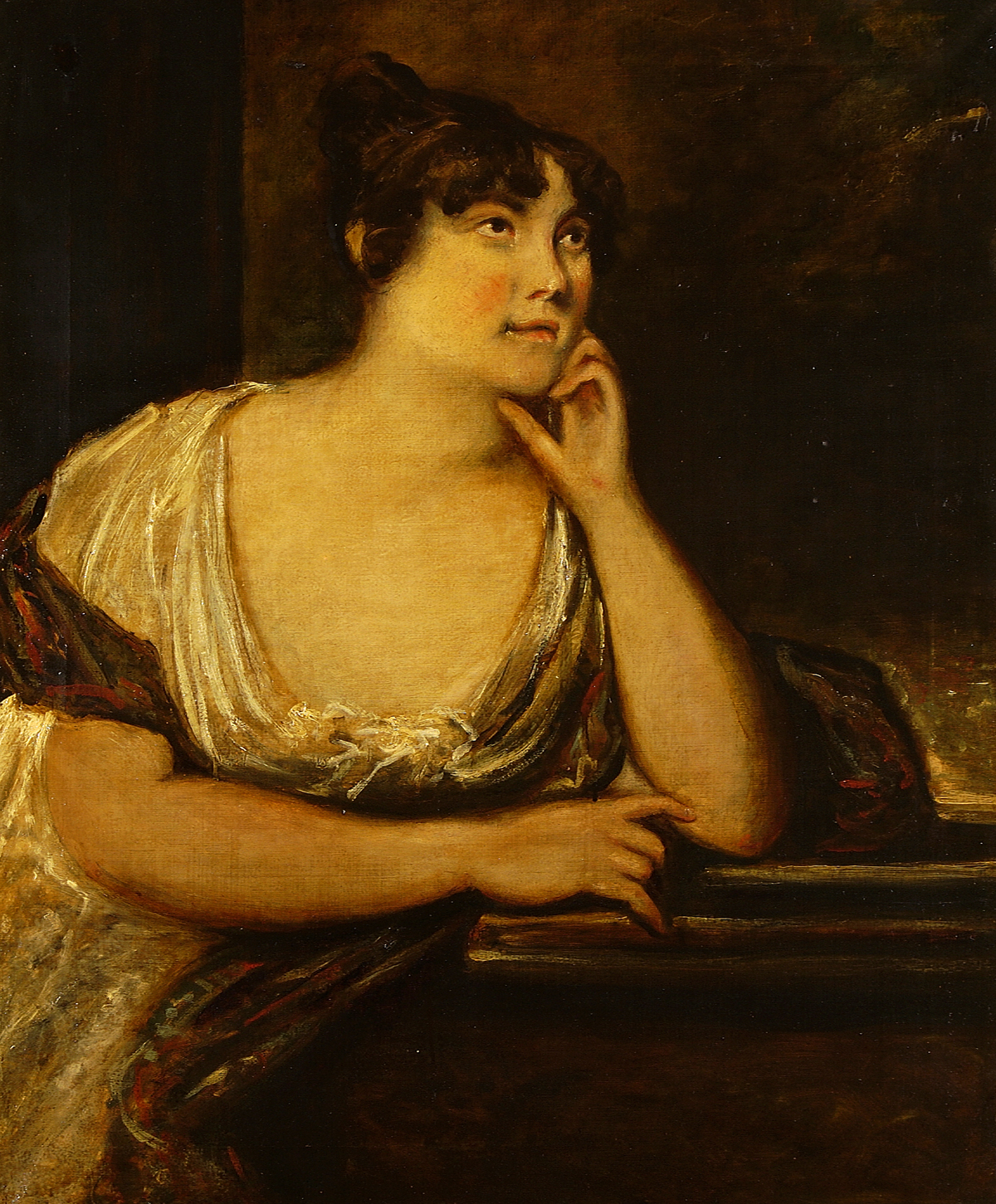 Mrs Elizabeth Cobbold attributed to George Frost 1815ish Colchester and Ipswich Museums Service; Supplied by The Public Catalogue Foundation